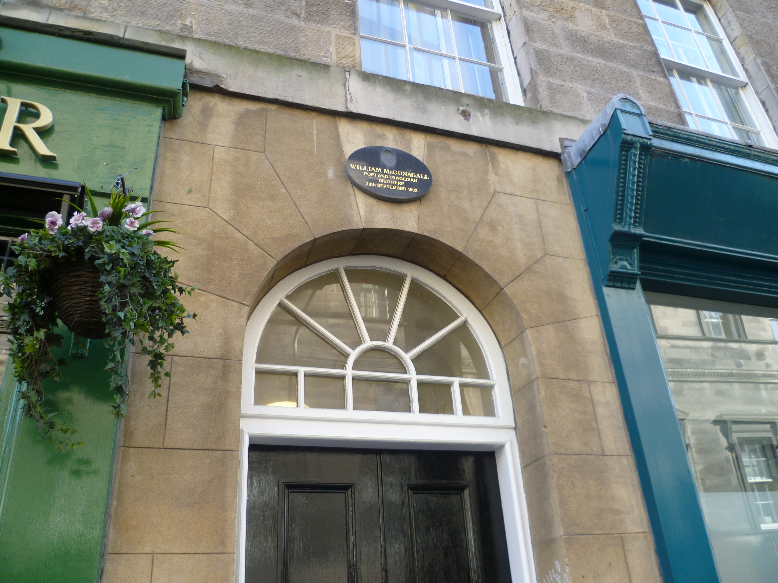 A plaque above the doorway to McGonagall's last residence records his death on 29th September, 1902